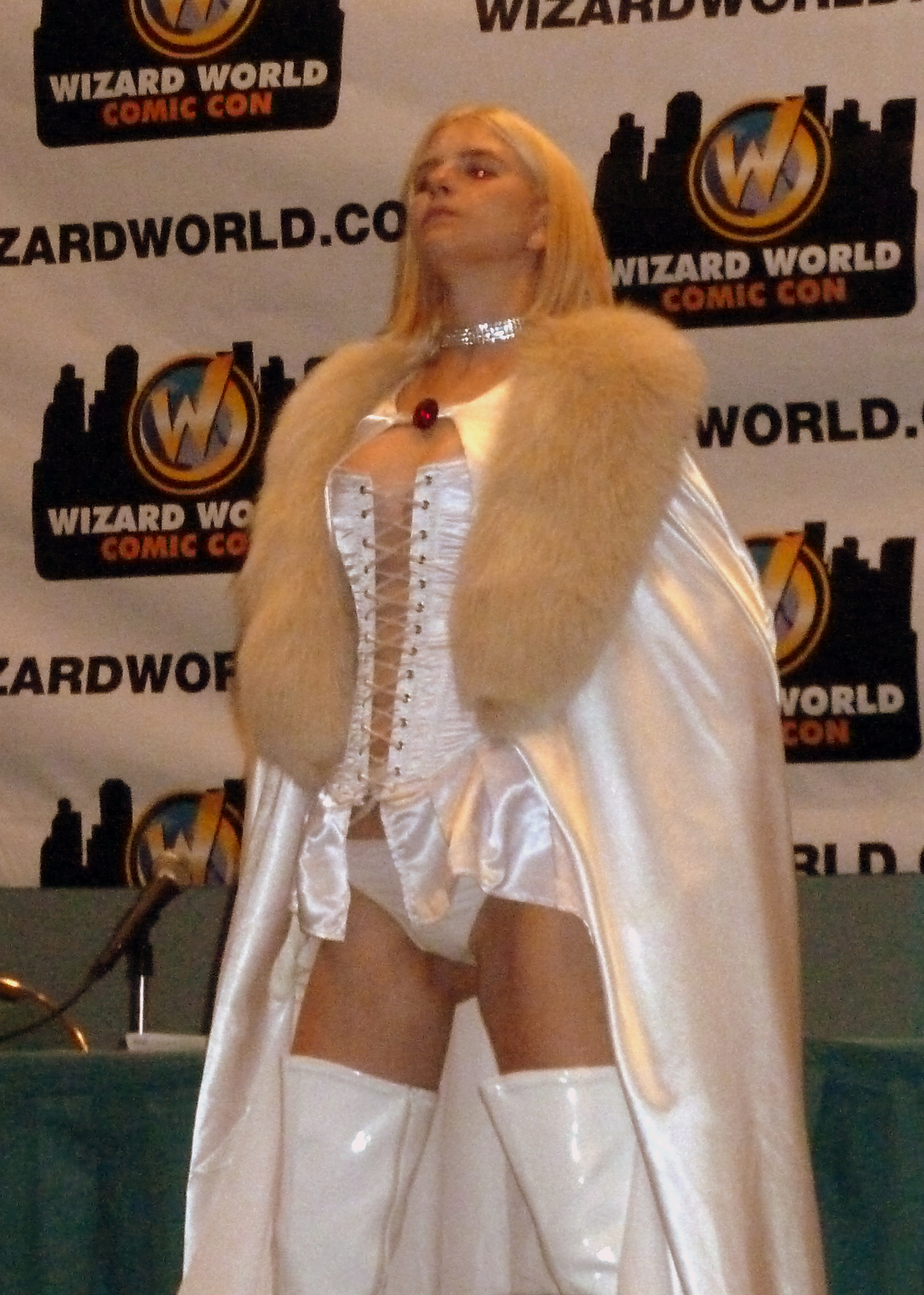 Emma Frost Cosplay at Wizard World Chicago 2011.